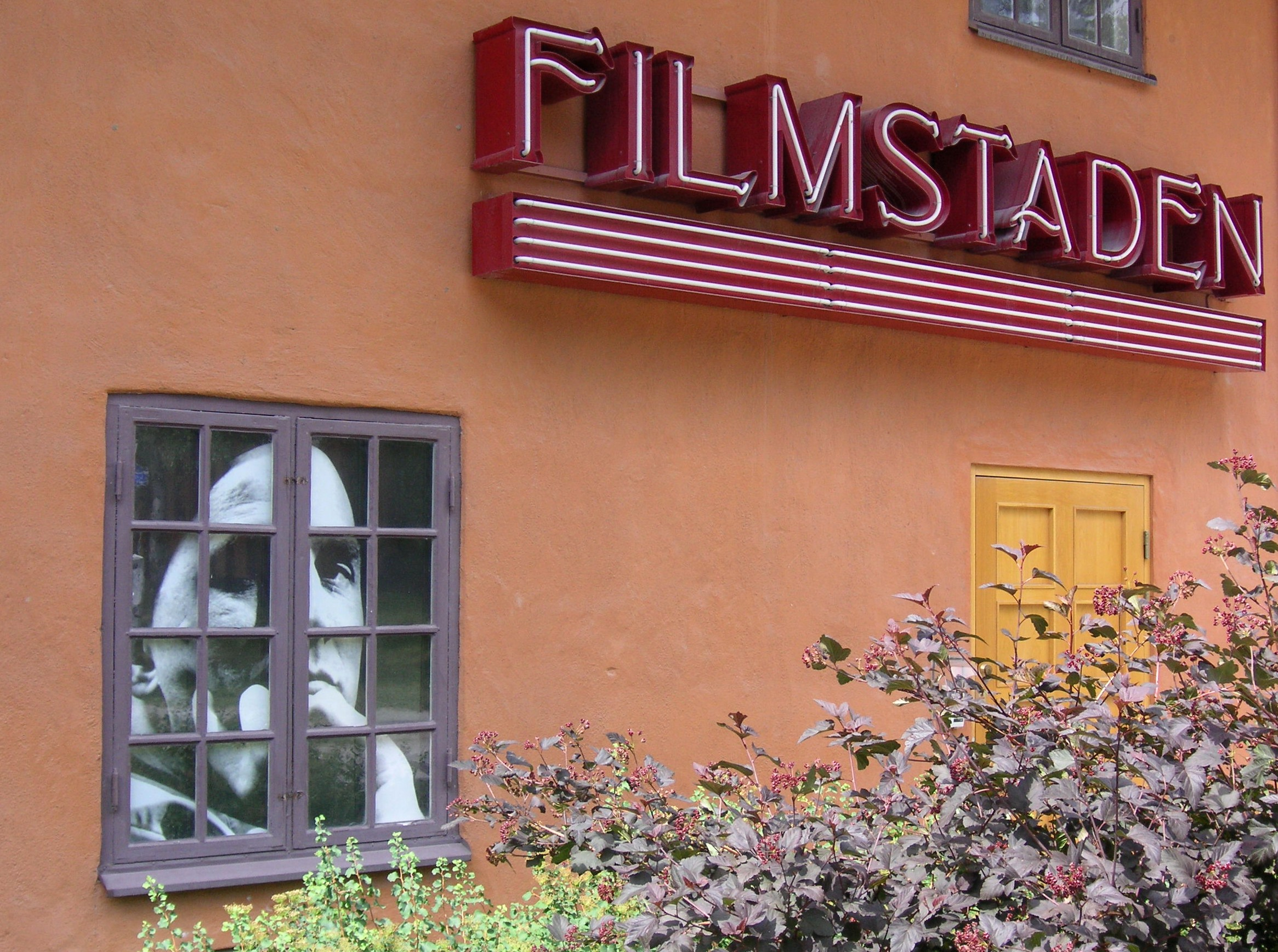 The former Swedish filmstudios "Filmstaden" in Solna